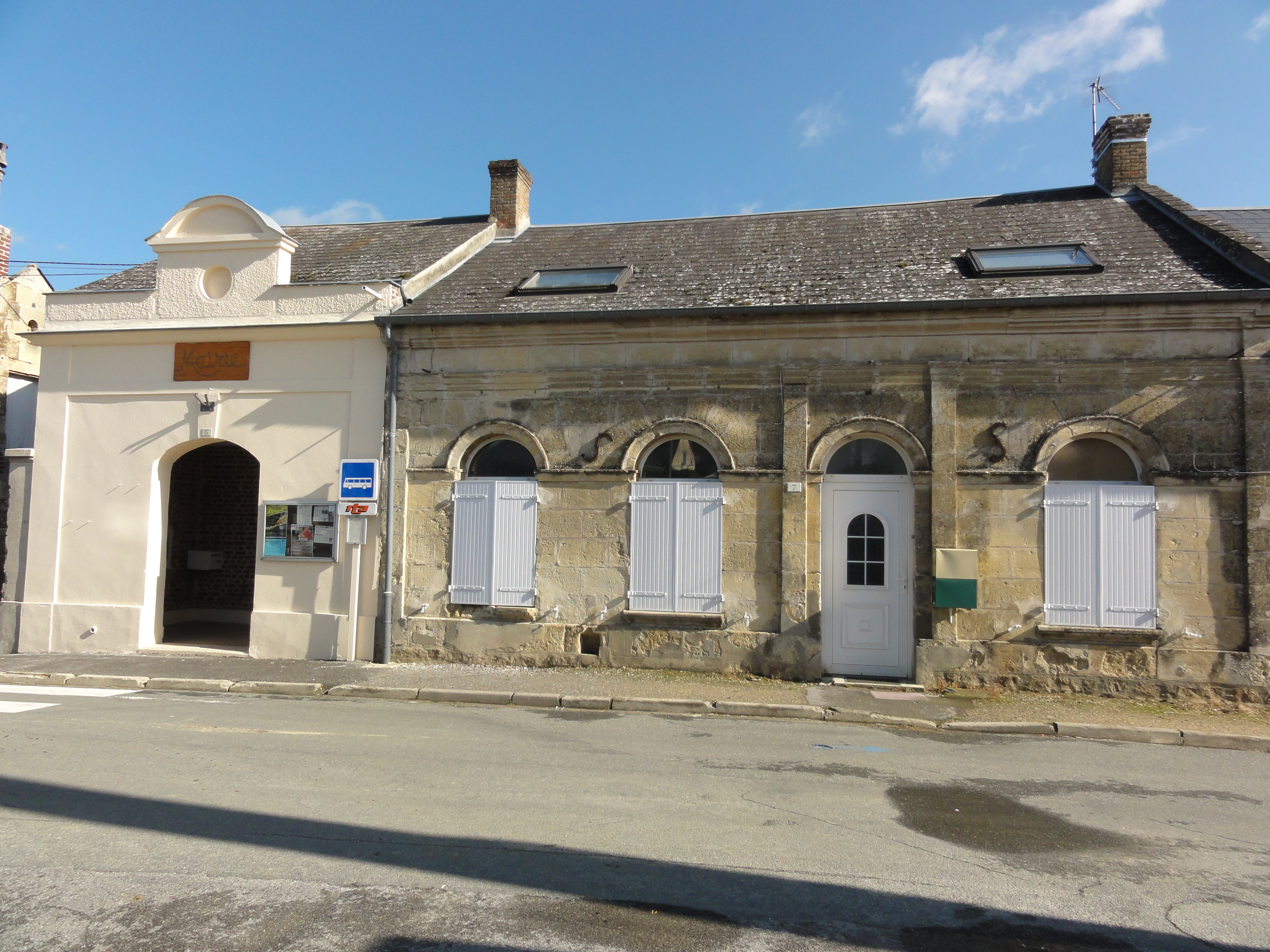 Bucy-lès-Cerny (Aisne) mairie